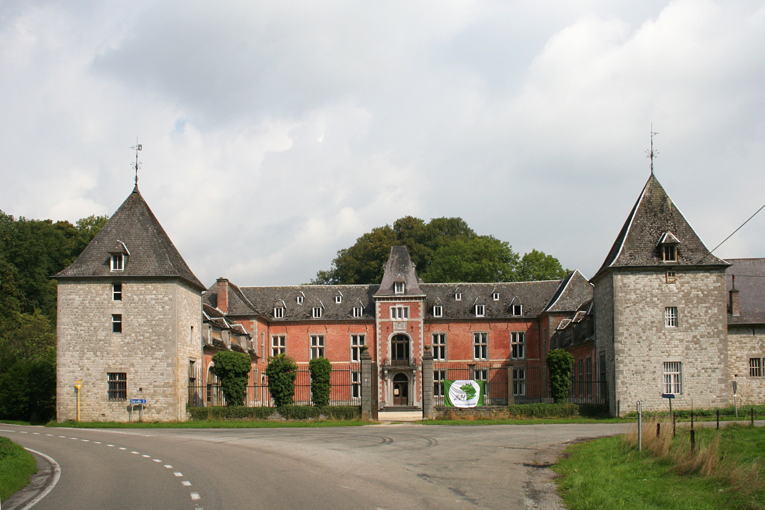 Anthée (Belgium), the "de la Forge" castle (XVIIth century).